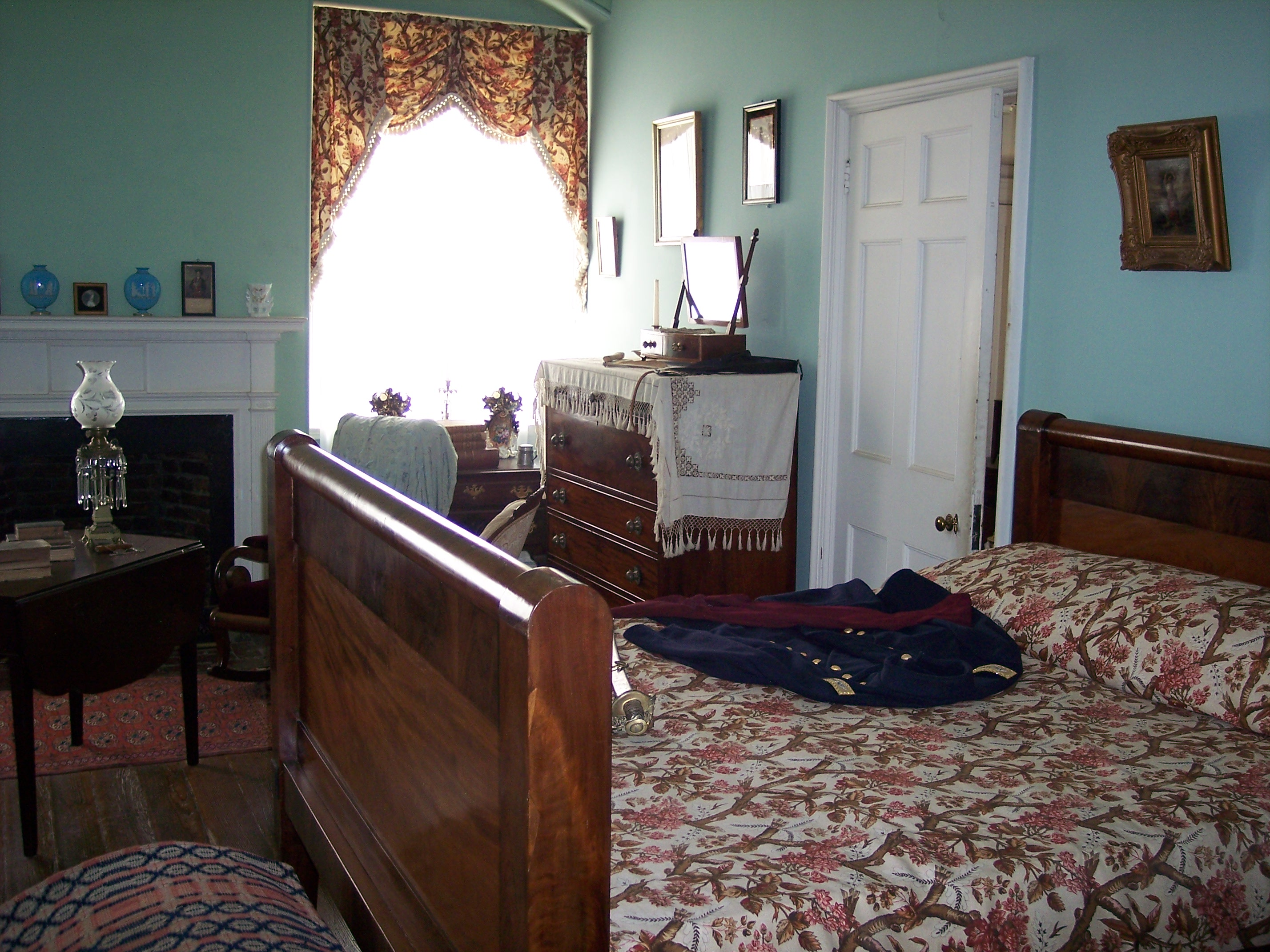 Bedroom on 2nd floor of Arlington House shared Robert E. Lee and his wife. A replica of his U.S. Army uniform is laid out on the bed.